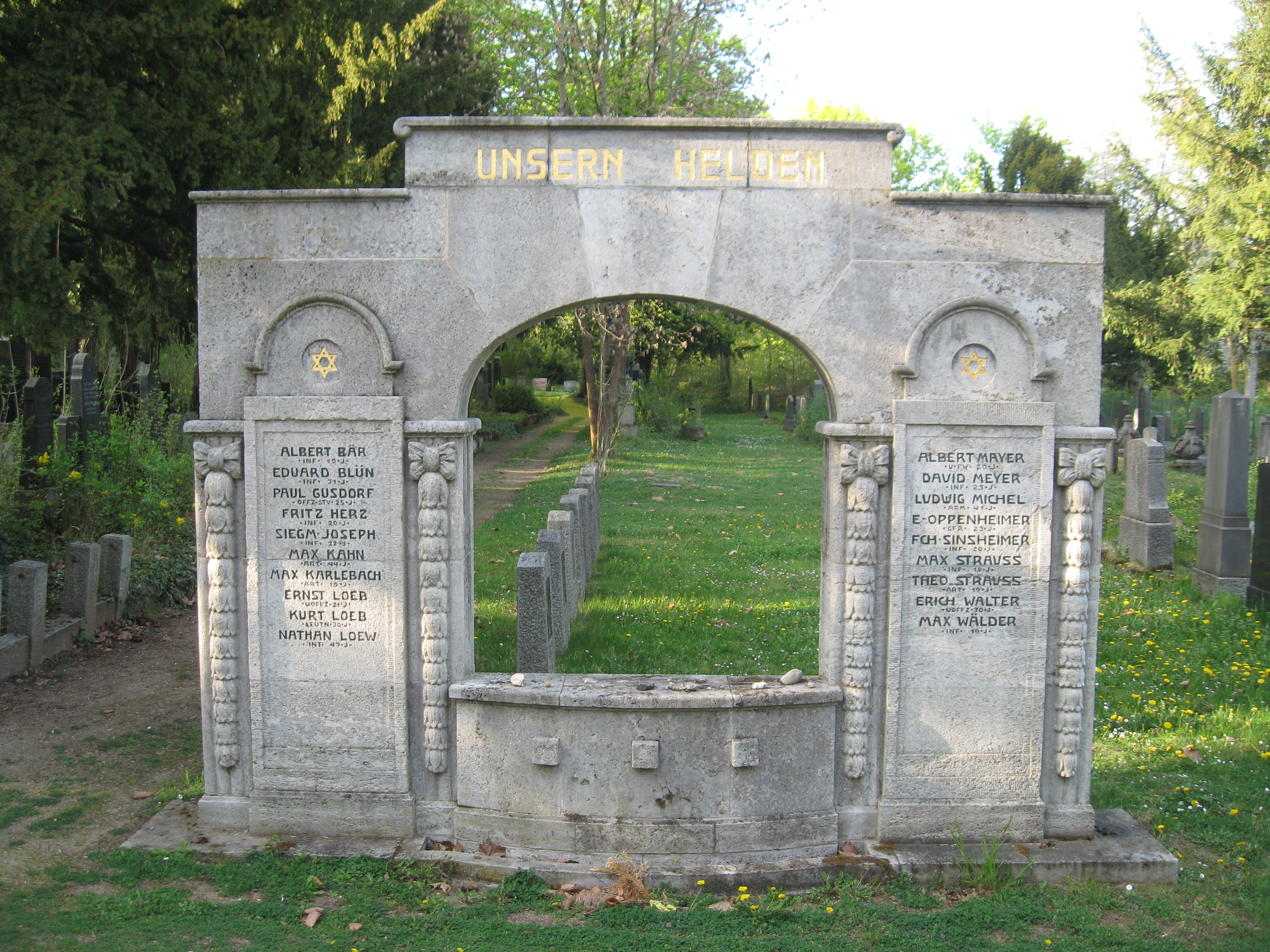 Neuer jüdischer Friedhof, Worms, Germany